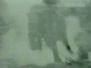 Electrocution of circus elephant Topsy